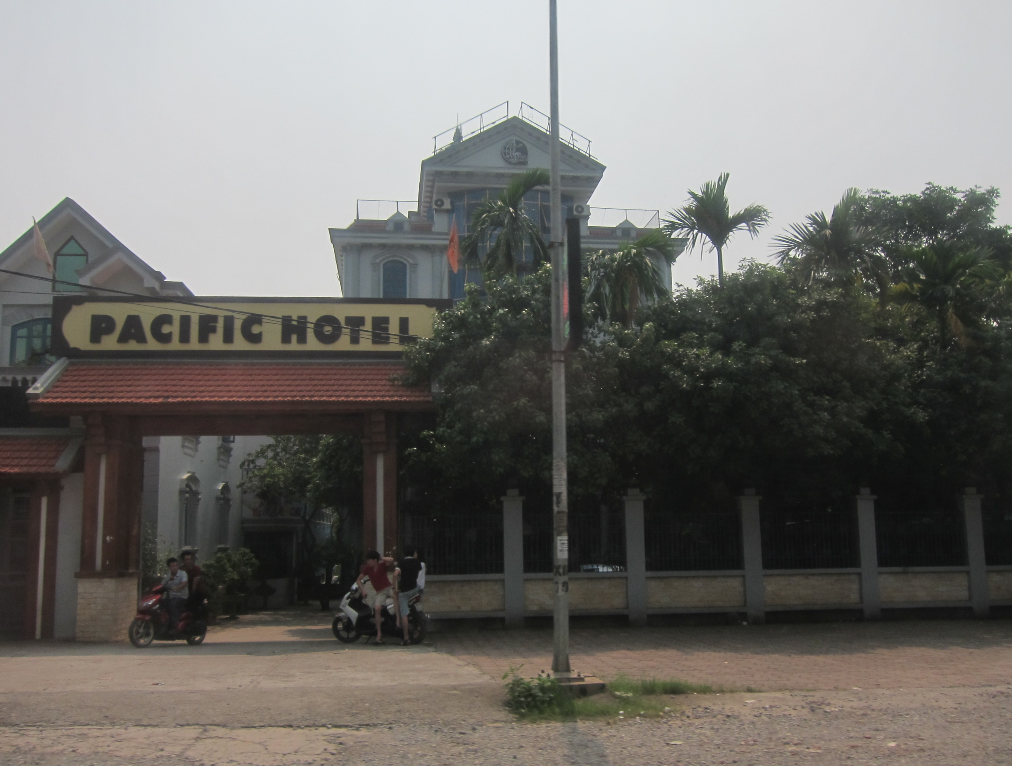 Xuan Mai town (Chuong My district, Hanoi, Vietnam)